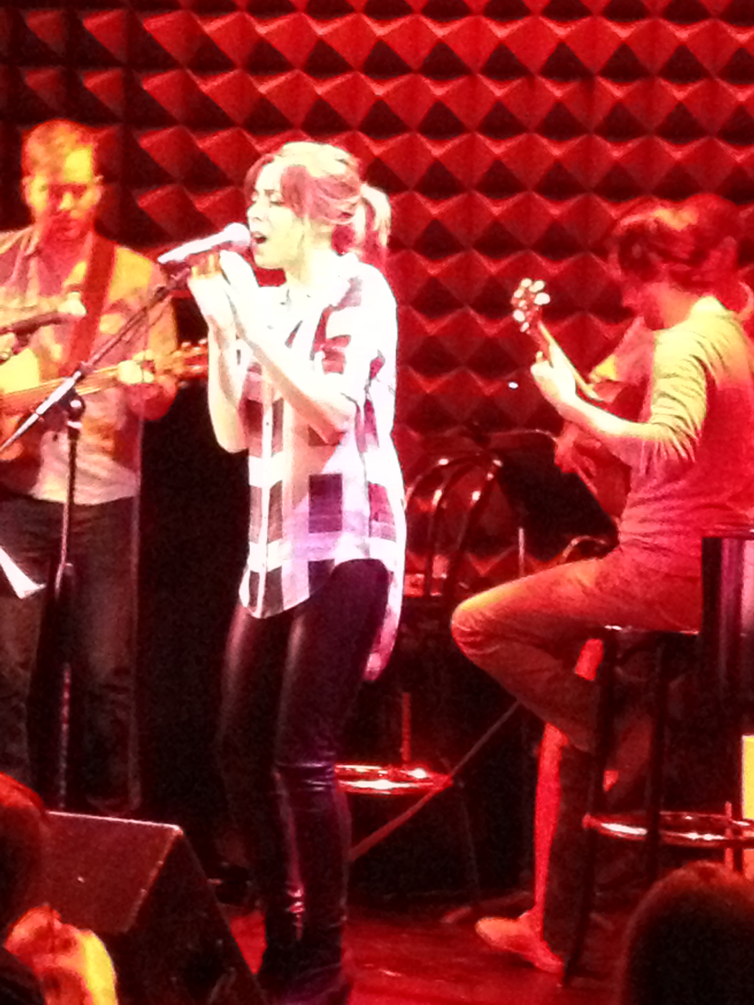 Cristin Milioti performing at Joe's Pub in NYC on 5-26-13.